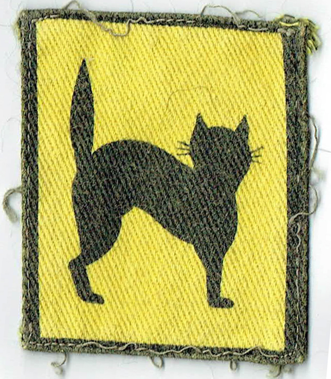 Grandfather's Shoulder patch when Commanding 10th Princess Mary's Own Gurkhas as part of 17th Black Cat Infantry Division (India)